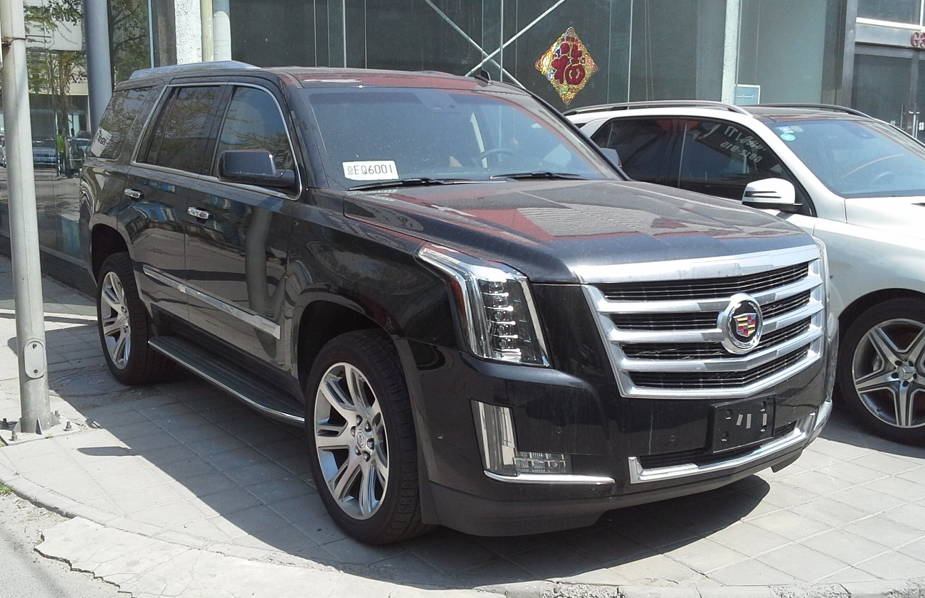 Cadillac Escalade IV photographed in Beijing, China.